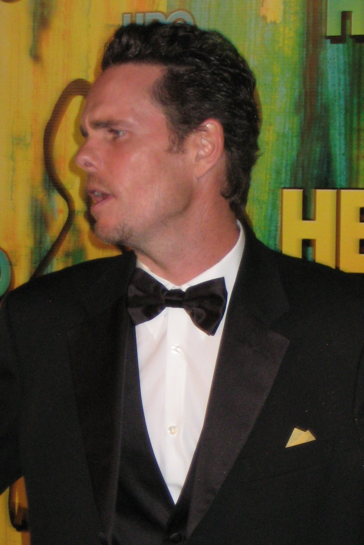 HBO Post-Emmys Party, Pacific Design Center, Sept. 21, 2008